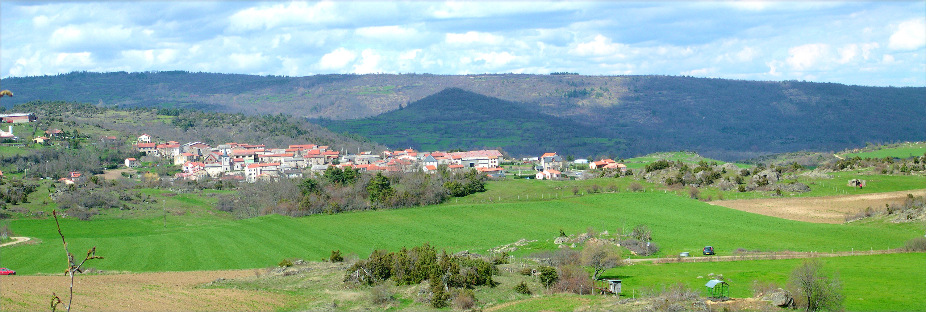 Village of Cournols(Auvergne France). The picture was made with three photographies using Panorama Maker software. Auteur/Author Romary Avril/April 17/17th 2006